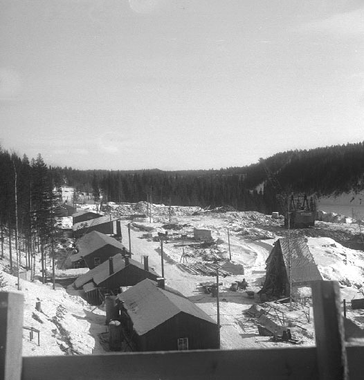 Skånska Cement's barracks during the building of Granfors power plant, downstream of the dam on March 12, 1950.